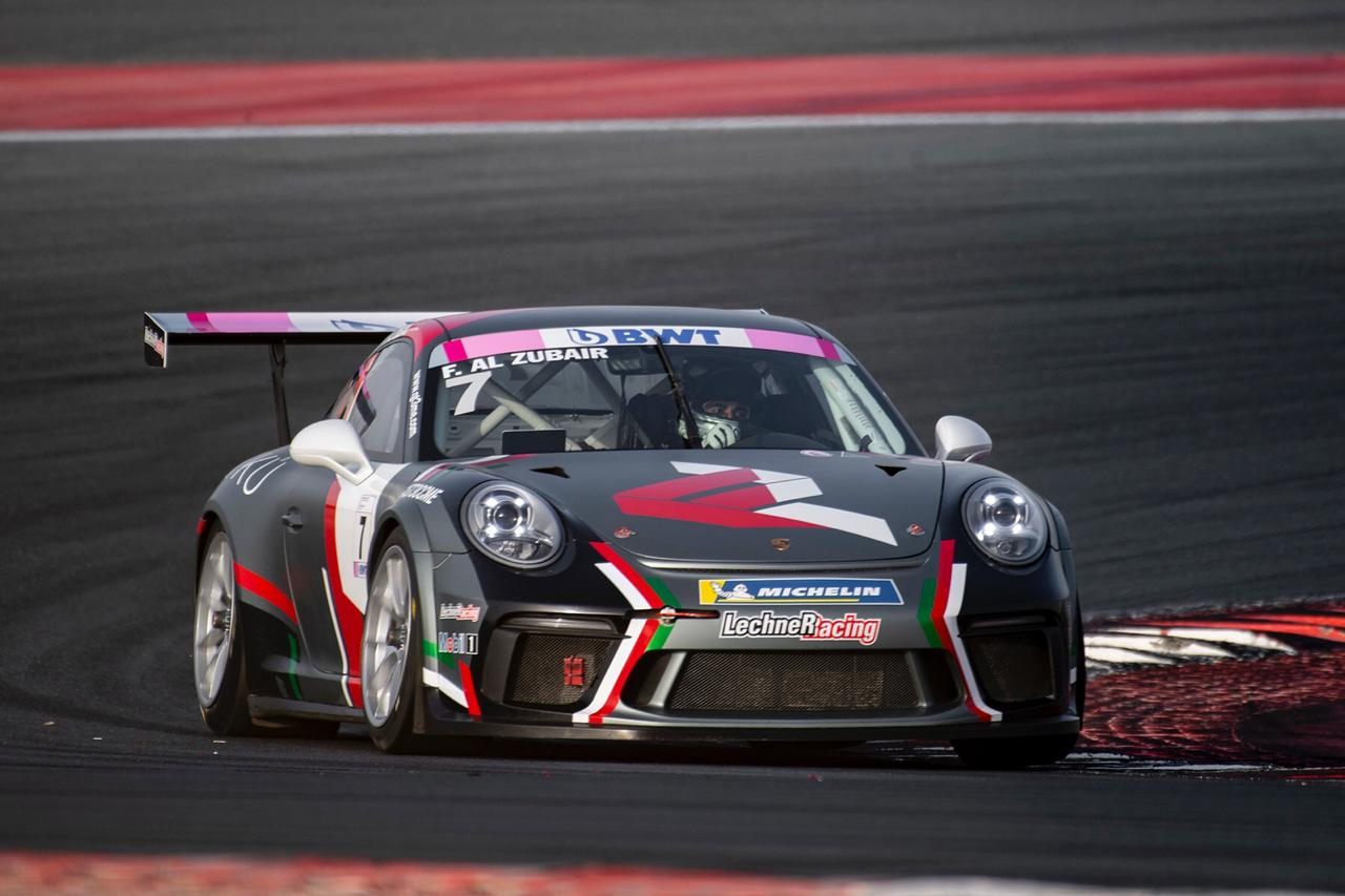 Al Faisal Al Zubair, Omani racing driver.